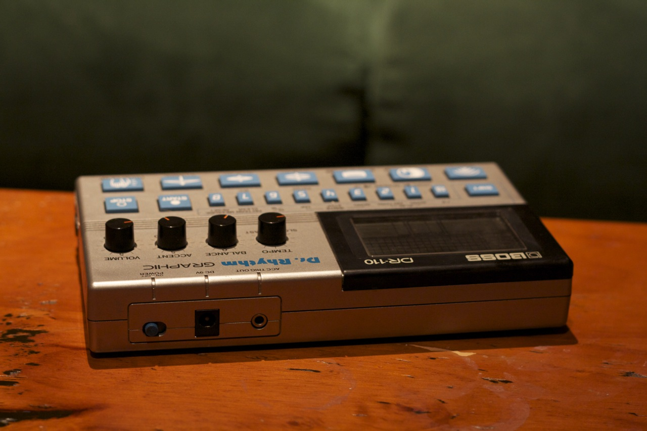 Imagine a 606, swap out the toms for a killer handclap, and put it all in a pocket-sized package. That's the Boss Dr. Rhythm DR-110.